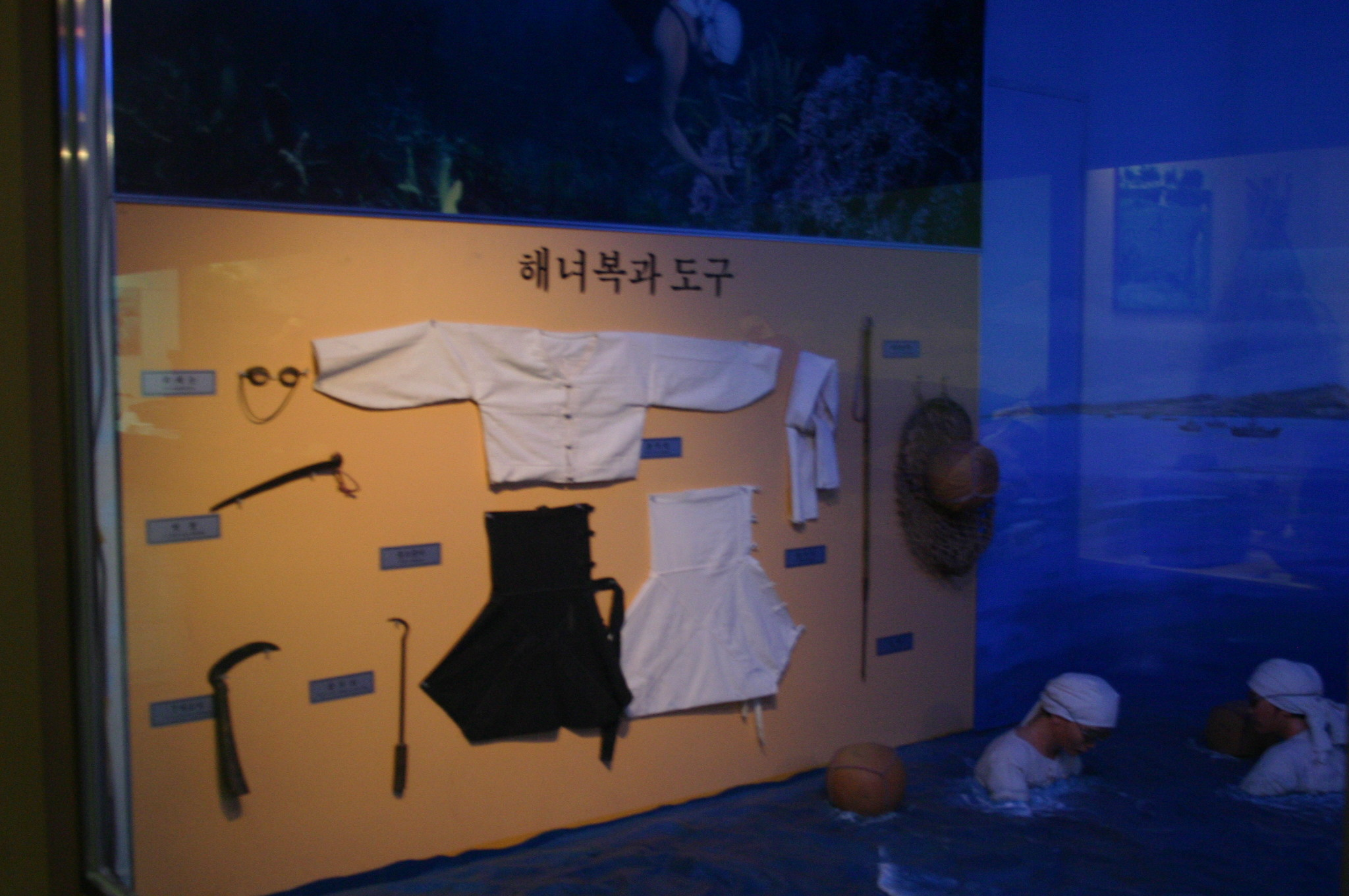 The traditional outfit and tools for haenyeo, female divers collecting seafood such as abalones, conch, shellfish under the sea for living of Korea.